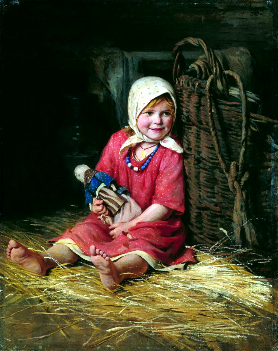 Work of artist Carl Lemoch "Varyka" 1893